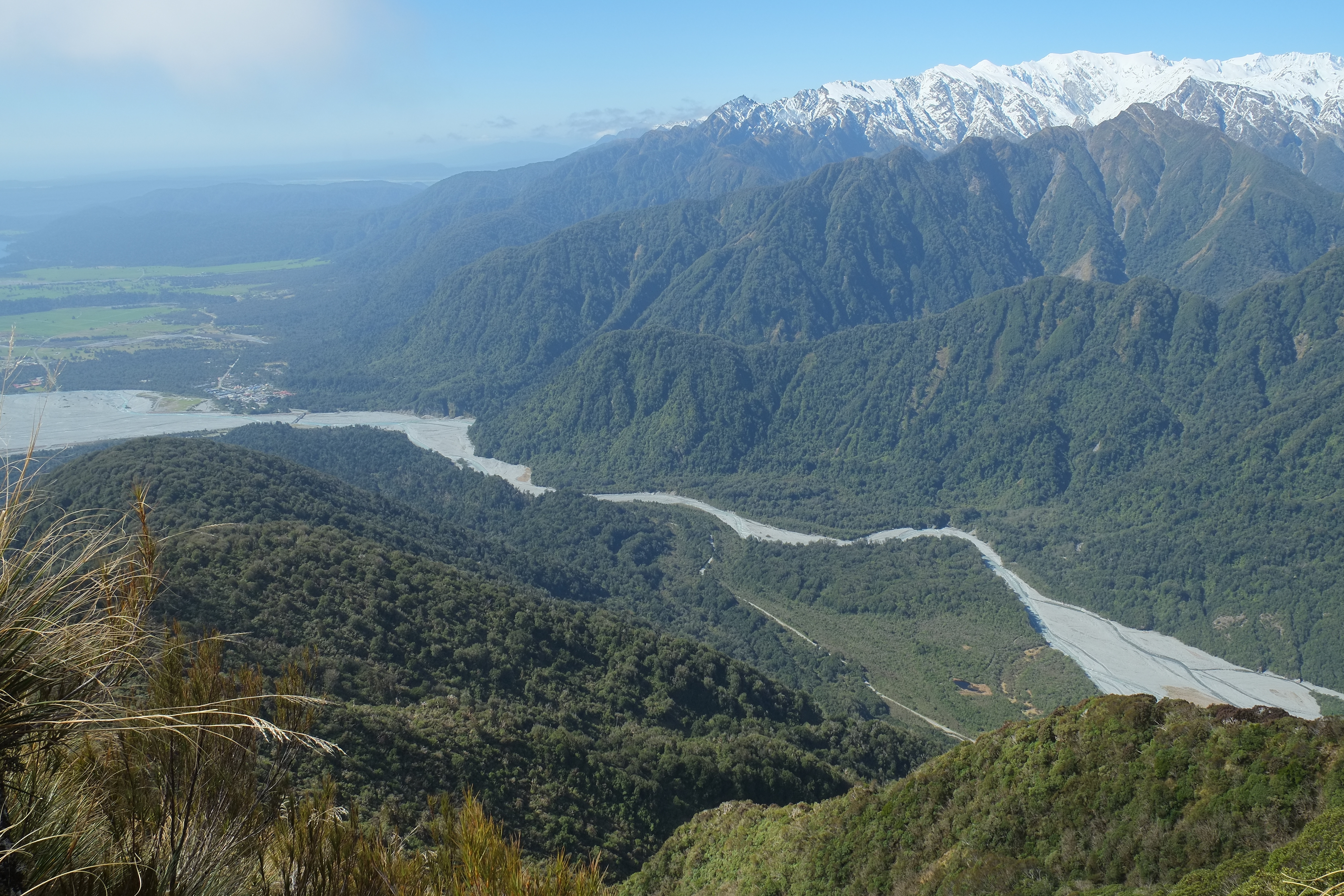 Franz Josef village and valley from Alex Knob, with the river bed of Waiho River clearly visible in the valley below.